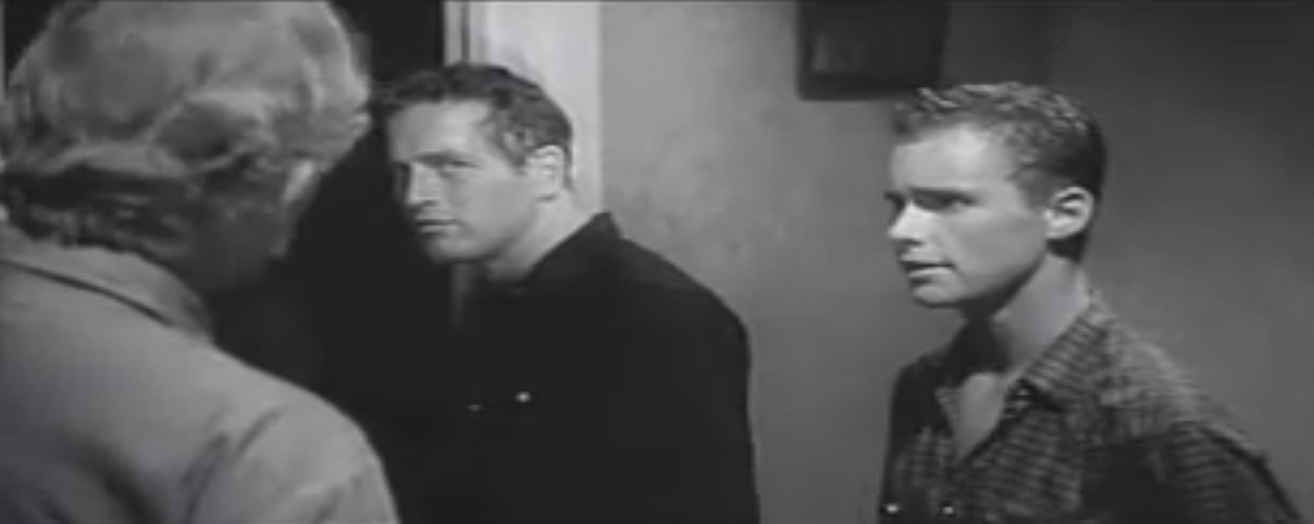 Hud (Paul Newman) argues with his father (Melvyn Douglas), while his nephew Lonnie (Brandon de Wilde) watches.